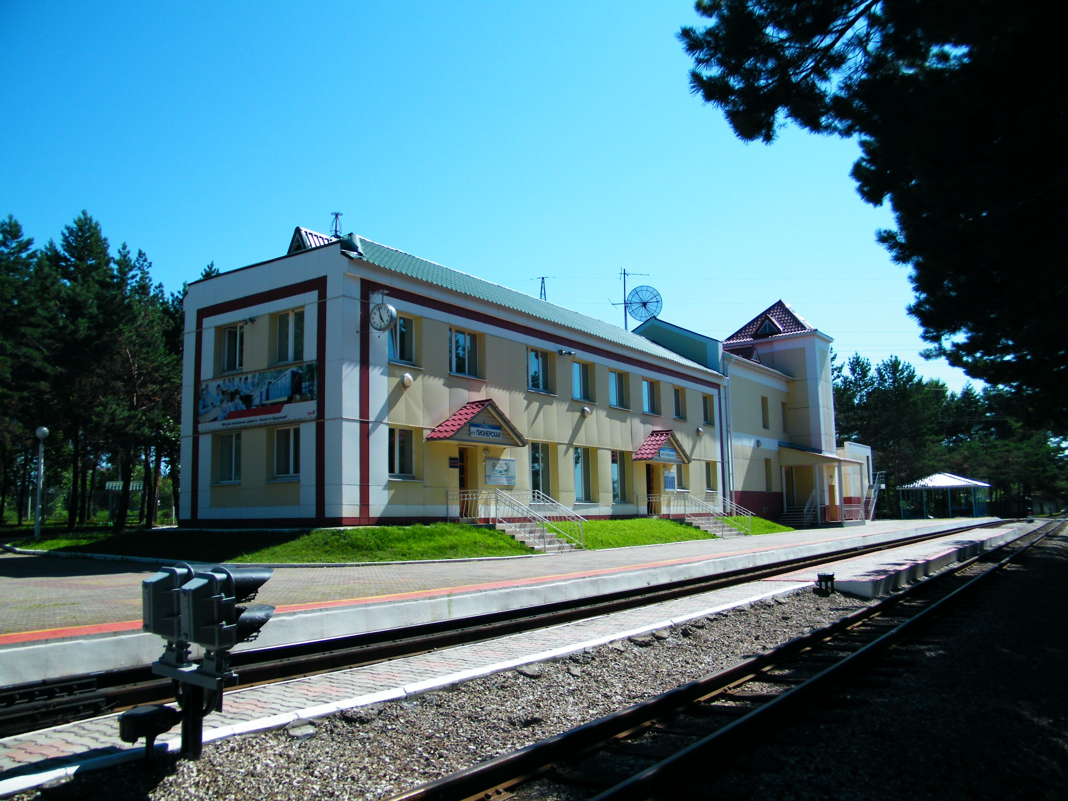 Malaya Dalnevostochnaya, Khabarovsk